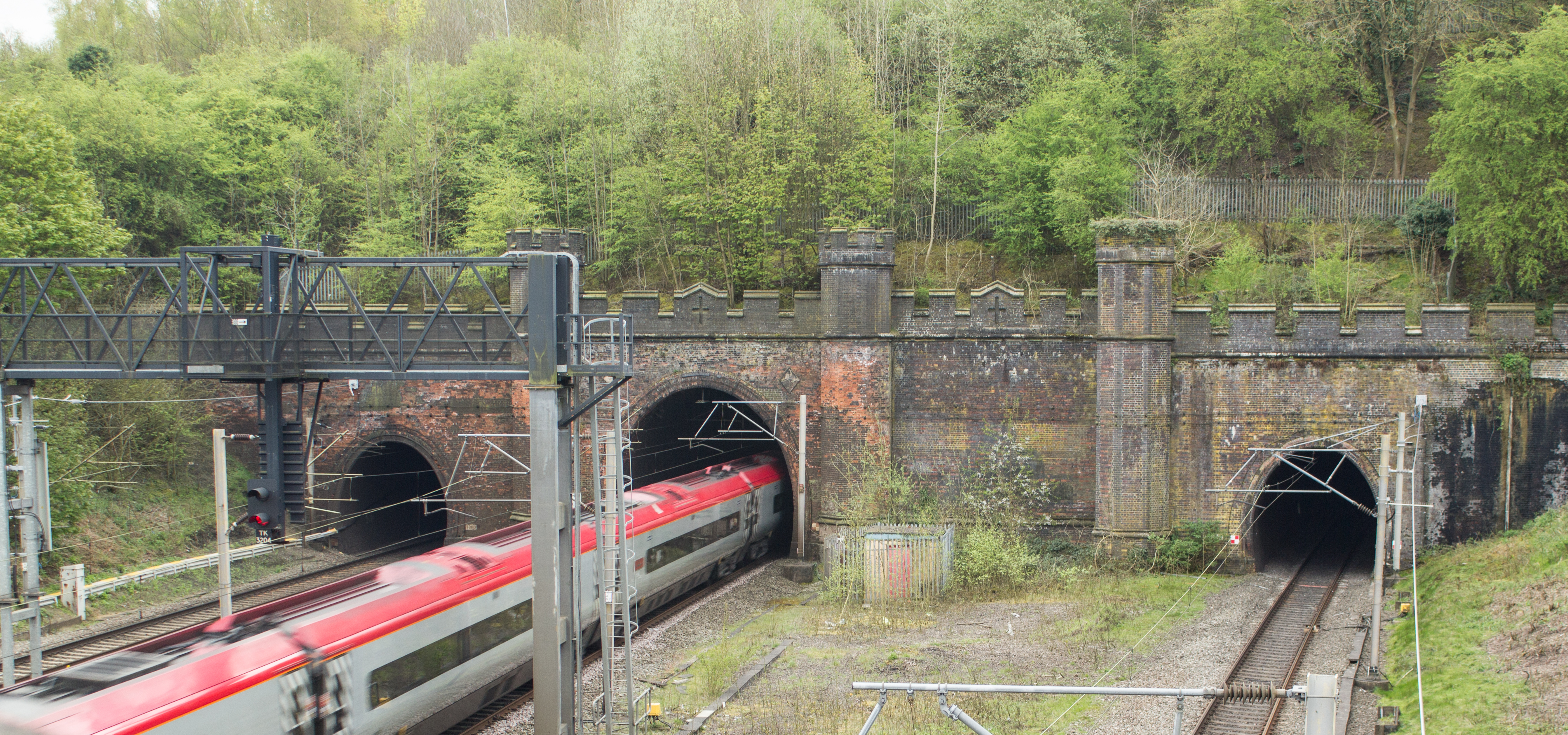 North portals of Linslade tunnels from road overbridge